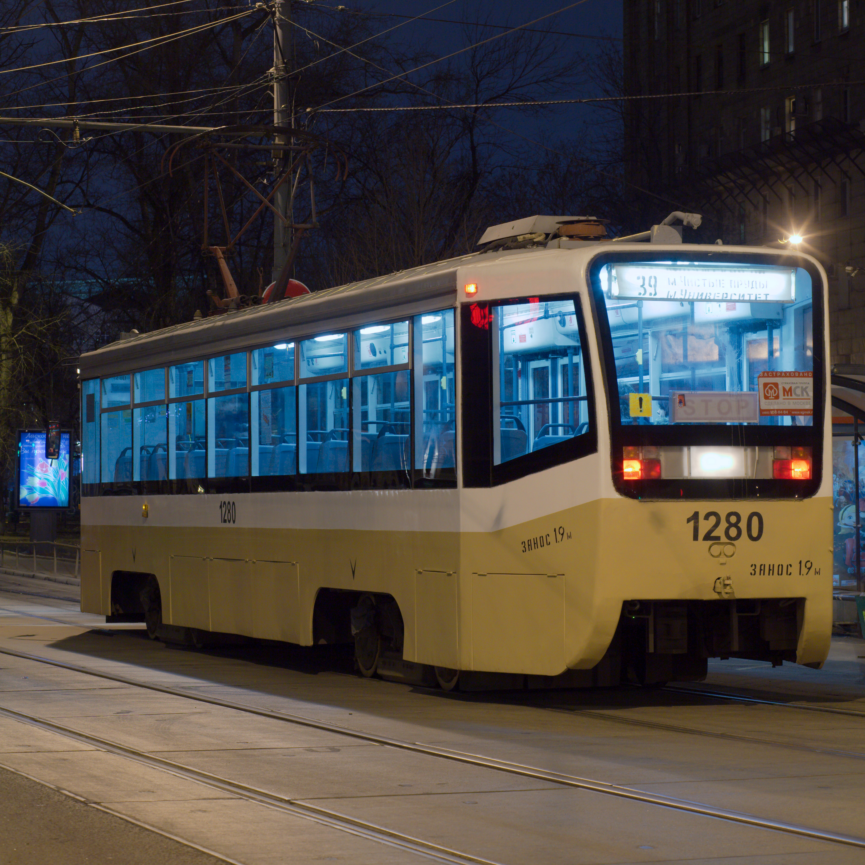 KTM-19 tram in Moscow, Russia. Taken with Canon 5D2 + 85/1.8, 1.3s @ f/8 ISO200.